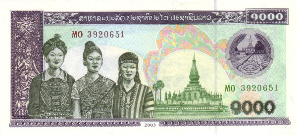 1000 Laotian kip in 2003 Obverse